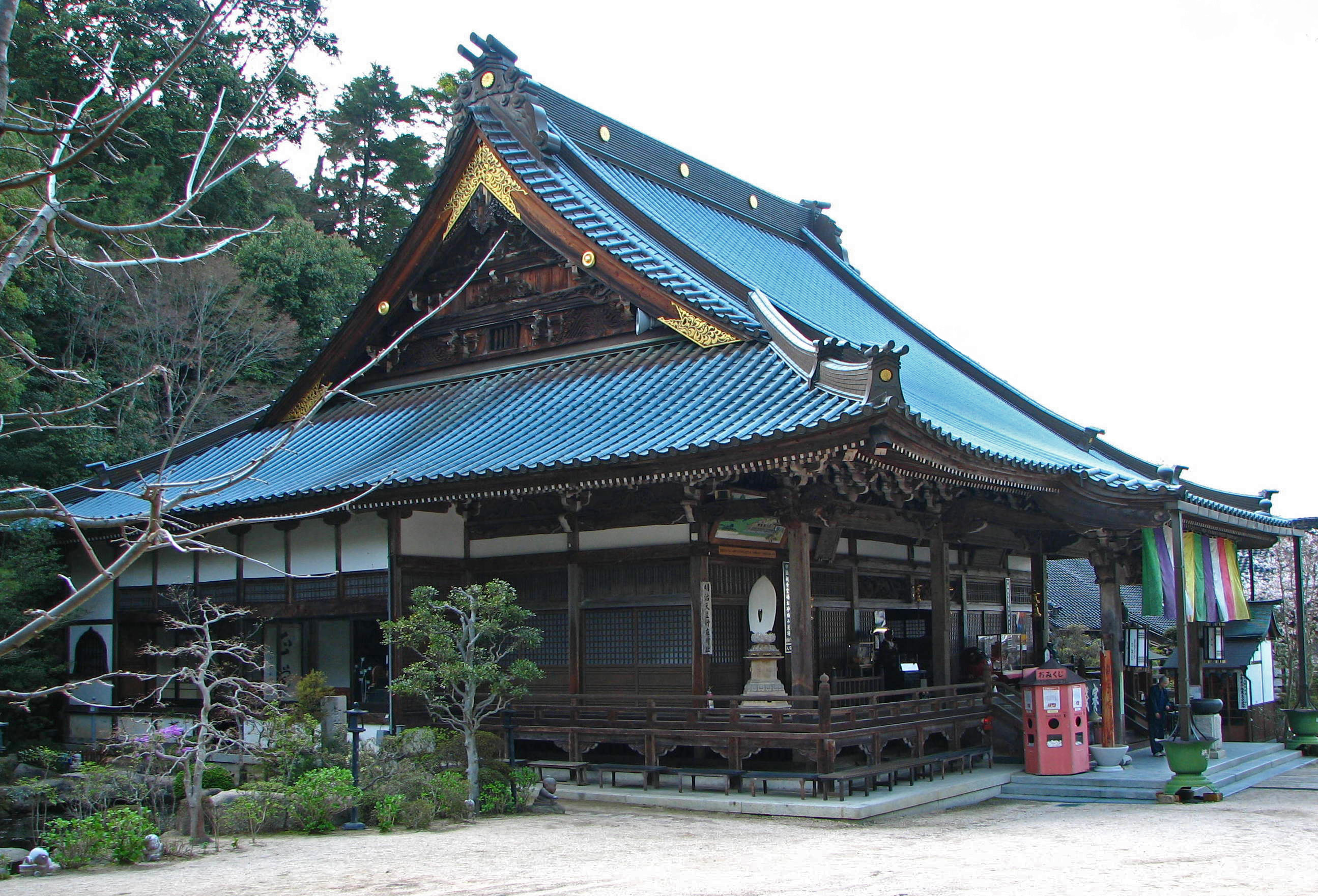 Kannon-do Hall, Daisho-in temple, Miyajima island, Hiroshima Prefecture, Japan